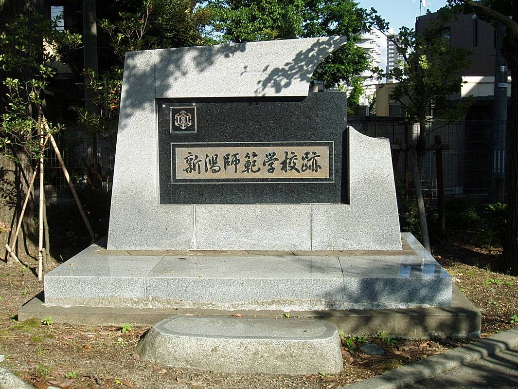 Memorial of Niigata 1st Normal School, one of the predecessors of Niigata University, located in Chuo-ku, Niigata, Niigata, Japan.